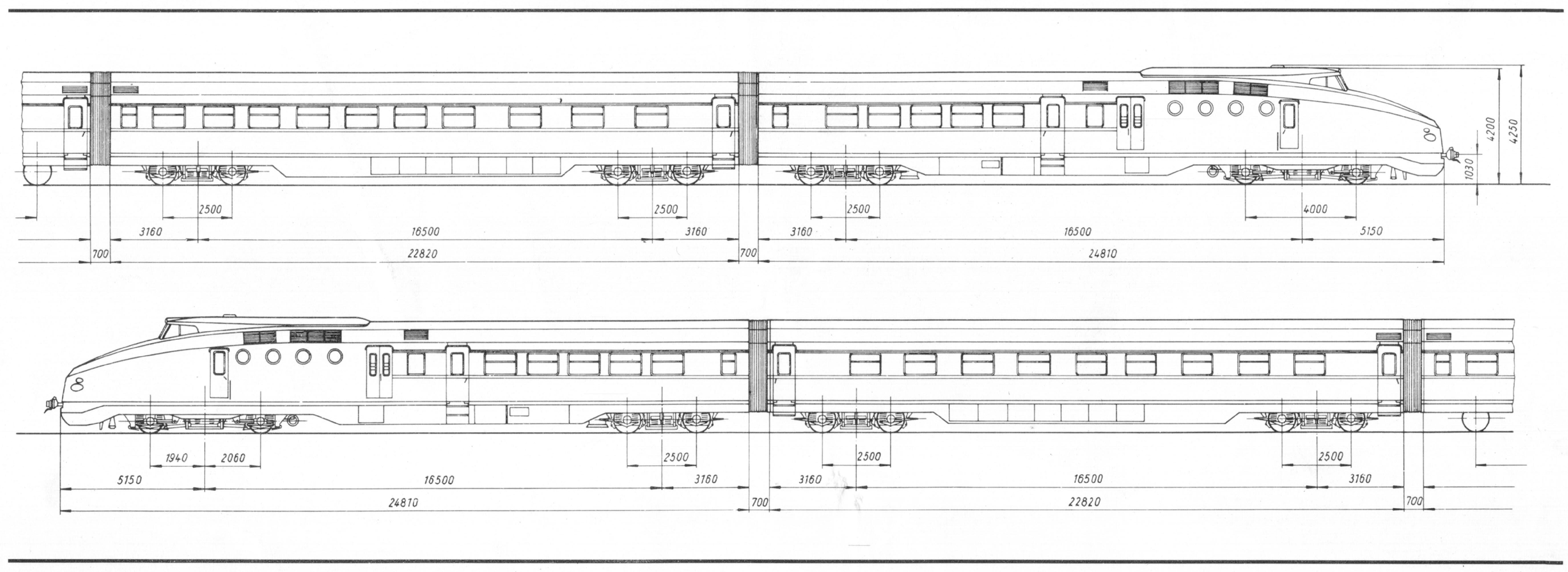 Sectional drawing of the multiple unit Diesel train number 175 015-1/175 016-5 of the Deutsche Reichsbahn